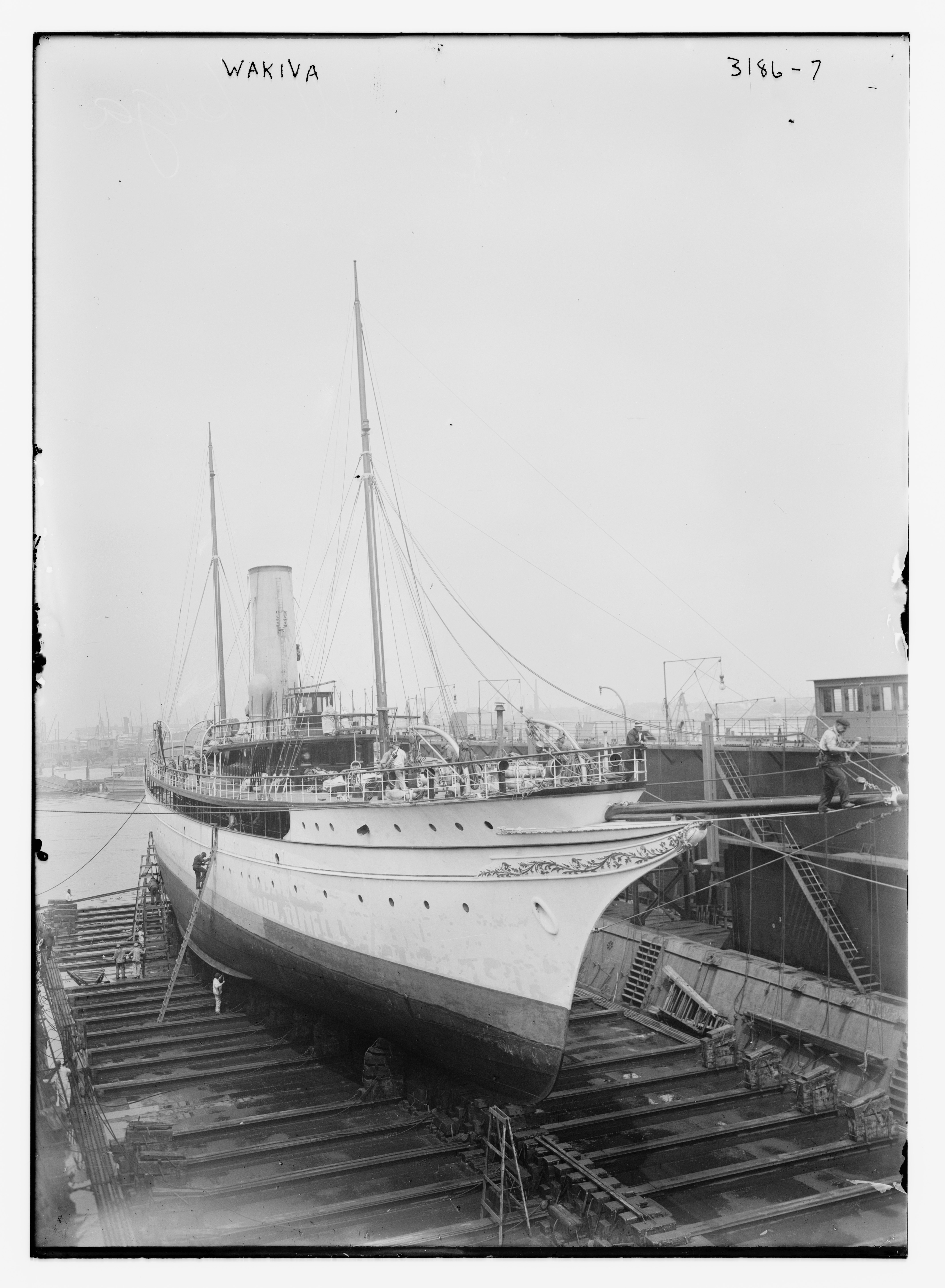 Title: WAKIVA Abstract/medium: 1 negative : glass ; 5 x 7 in. or smaller.